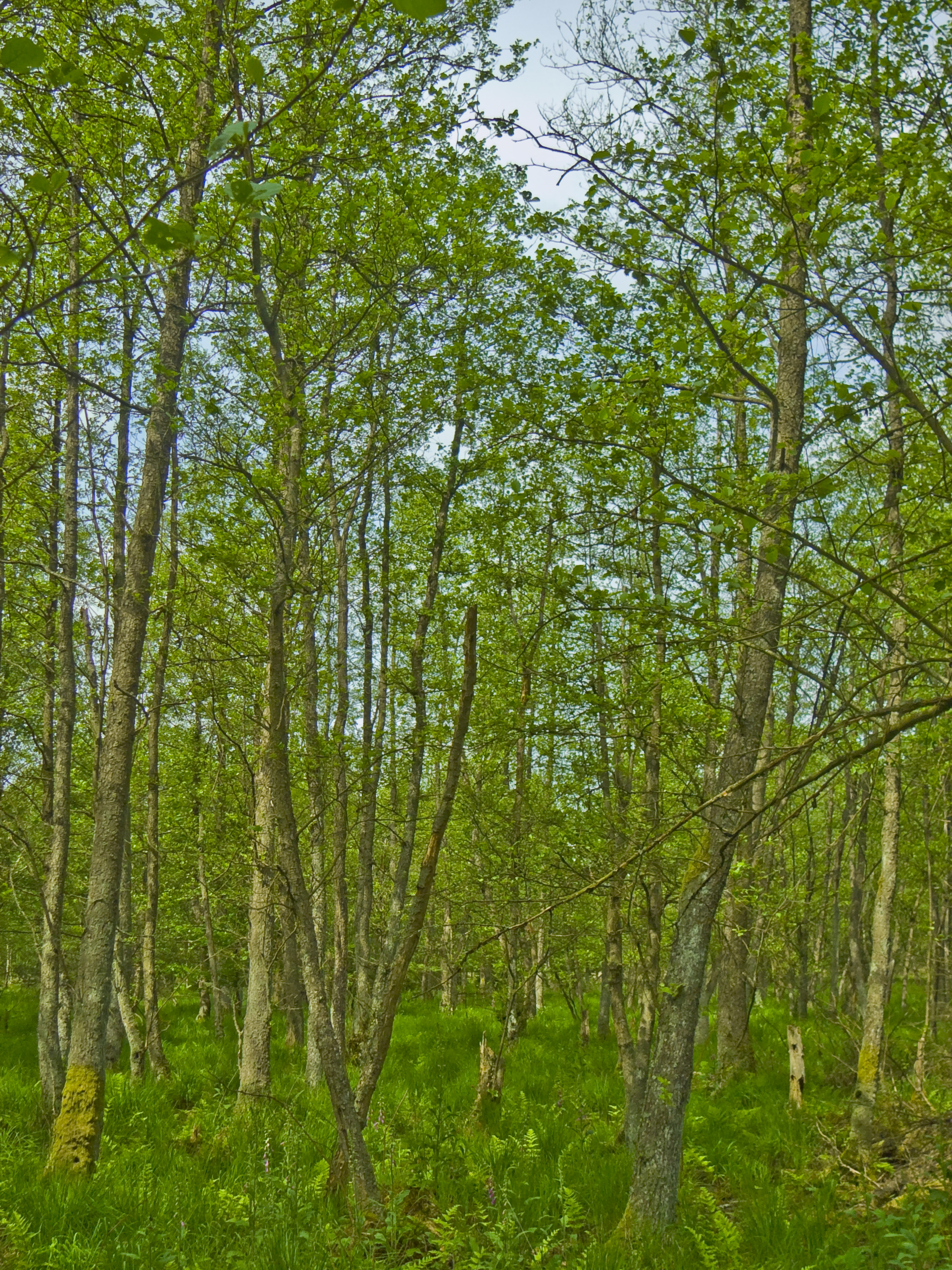 Alder forest (Alnus glutinosa) in the Burgwald, Hesse, Germany